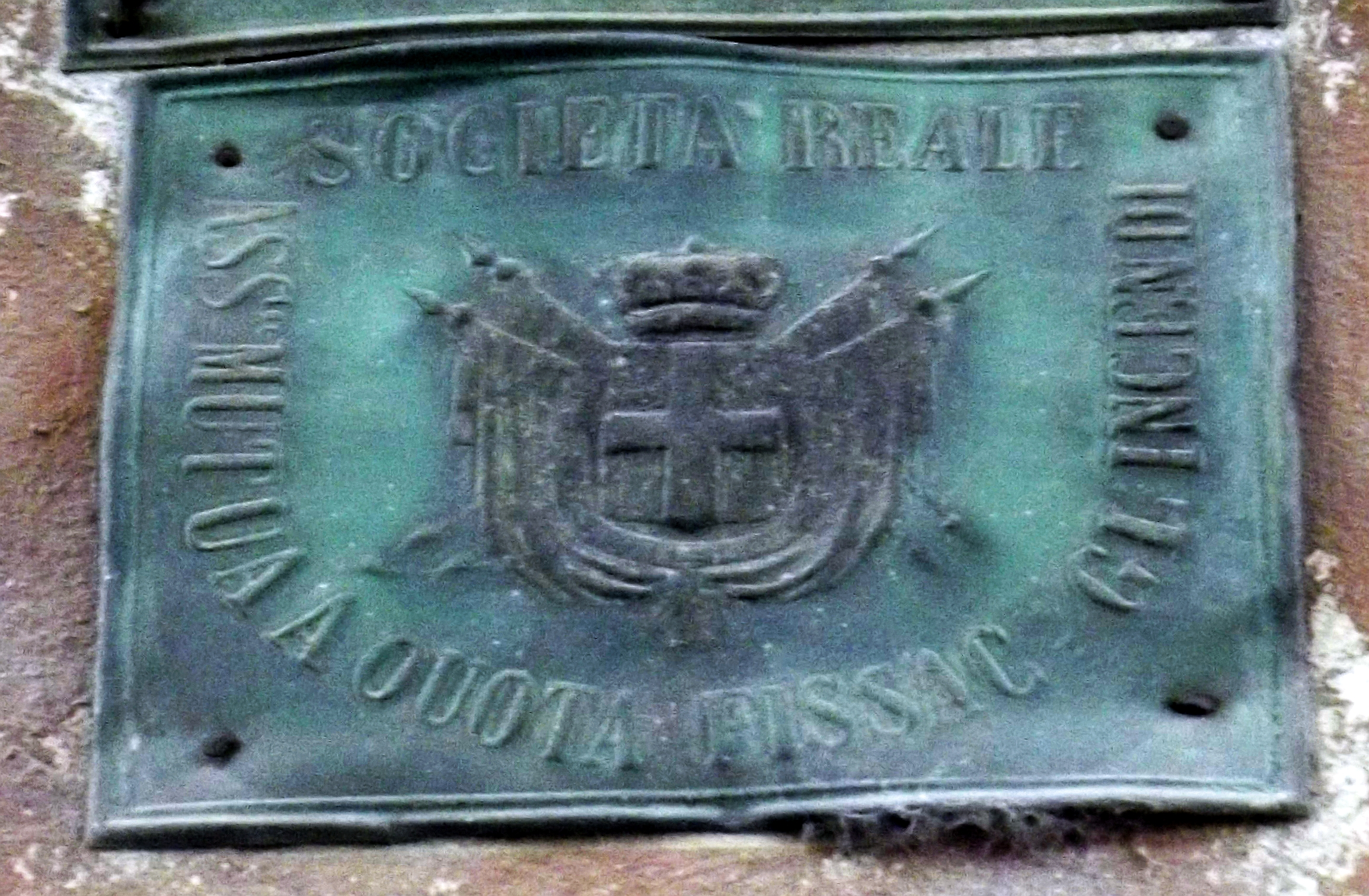 Società Reale di Assicurazioni generale e mutua contro gli incendi: sign on a building in Lanzo Torinese (Italy)